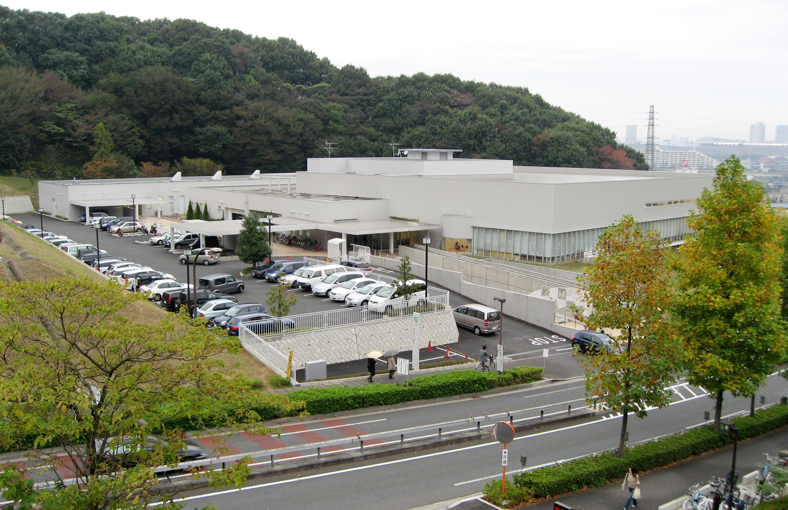 Inagi City Central Library, Tokyo, Japan.